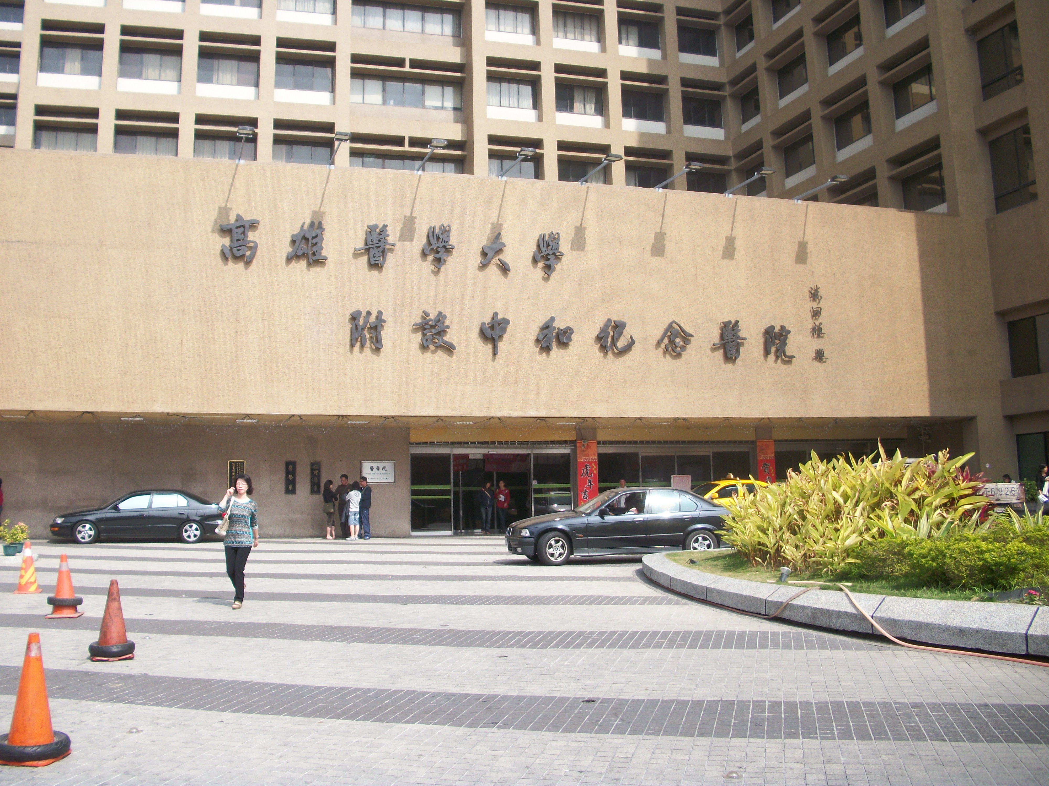 Zhongho Memorial Hospital of Kaohsiung Medical University.